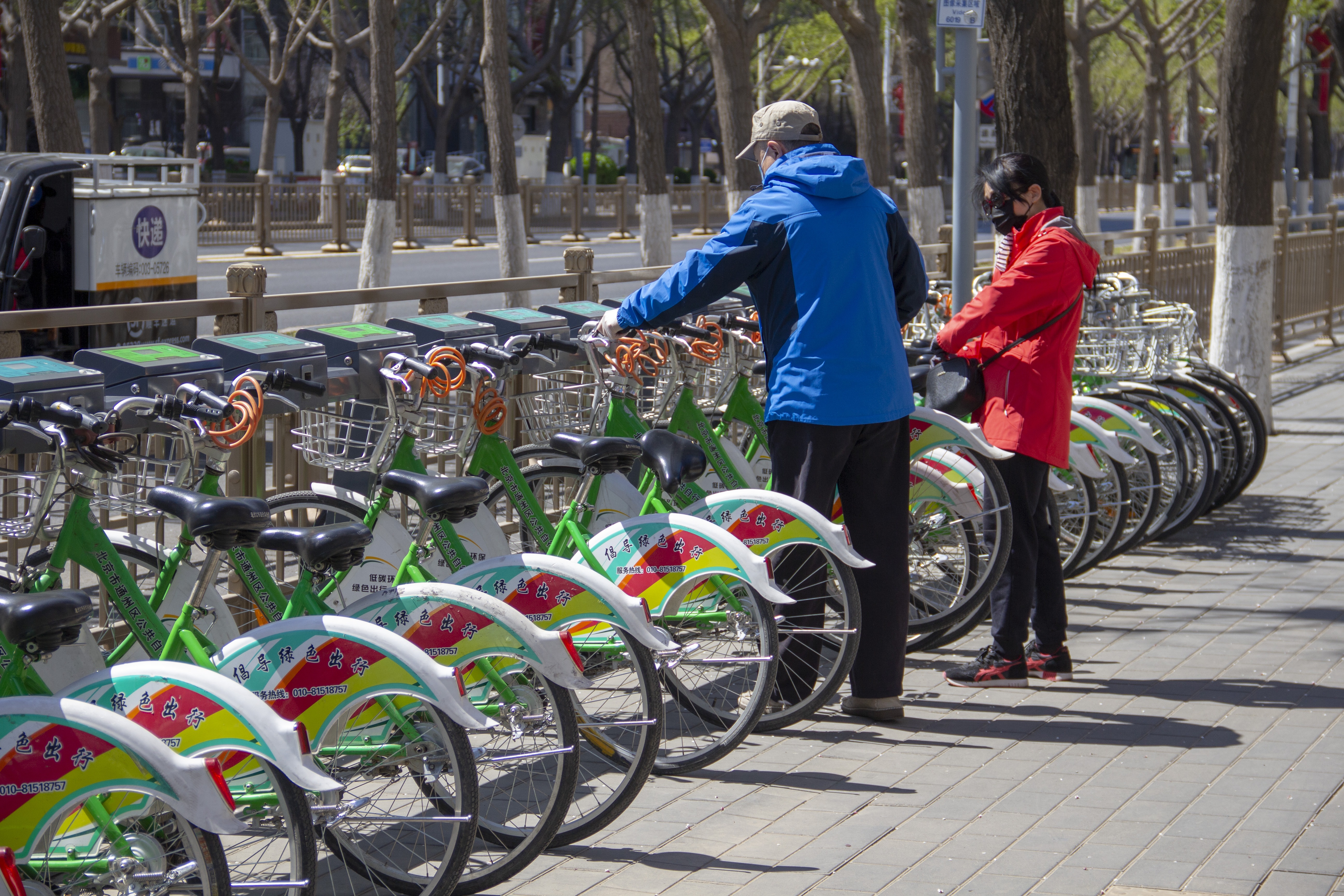 Returning Tongzhou Public Bikes